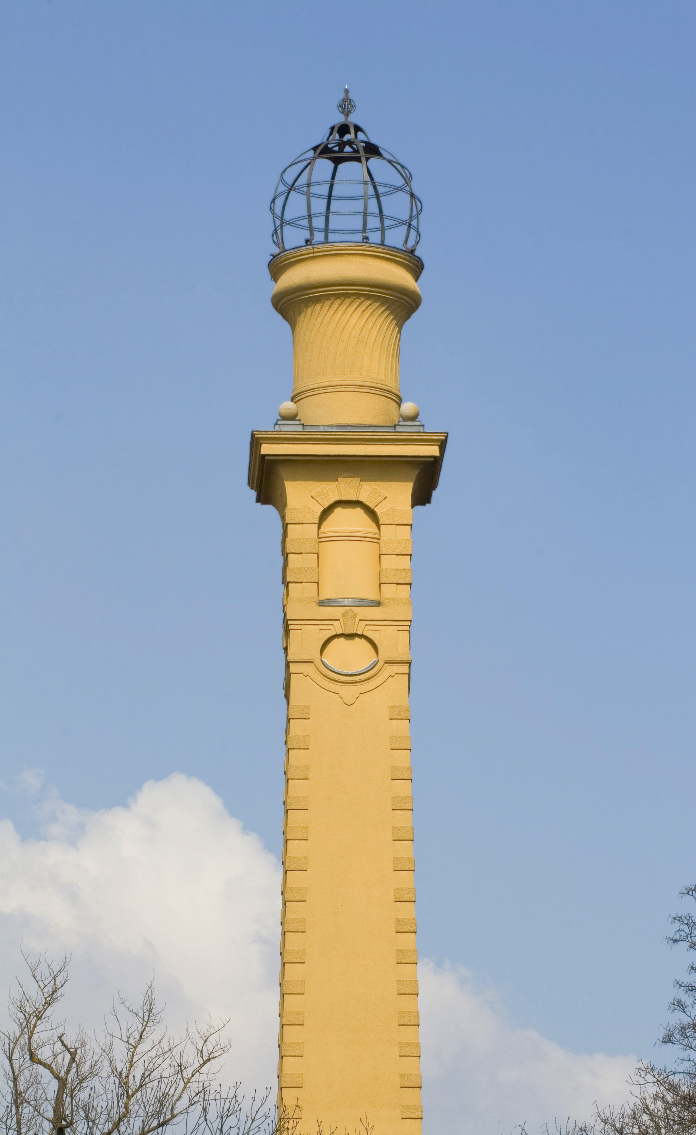 Muffatwerk, Munich, Germany